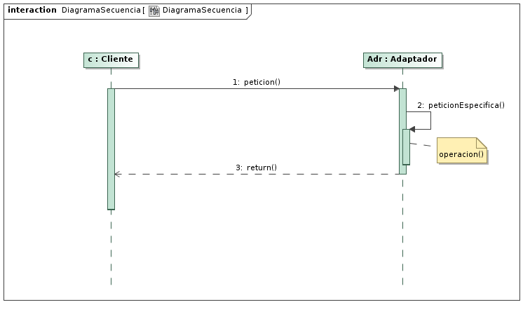 Diagrama de secuencia do patrón de deseño adaptador coa inplementación de obxeto adaptador.